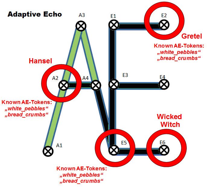 The Graphic shows the Adapitve Echo protocol for echocasting. With encryption tokens the nodes learn, which node to send a message and which not.